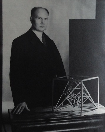 Photograph of the Finnish philosopher and librarian Uuno Saarnio (1896–1977).